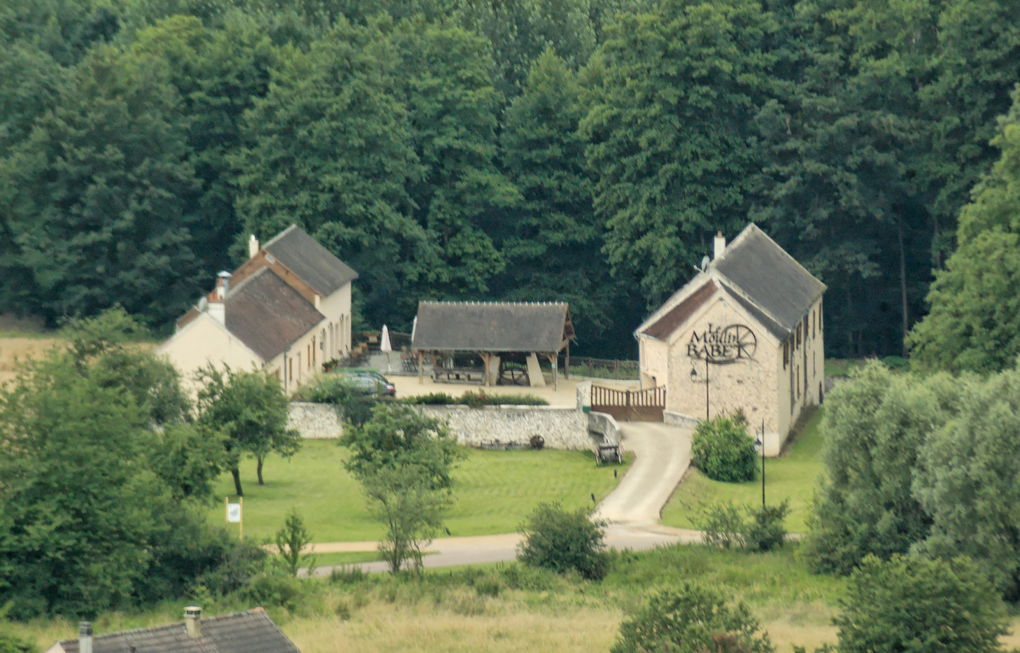 Babet watermill in Mézy-Moulins, Aisne, France.